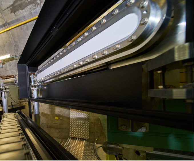 One-metre-wide scintillator showing whether or not they have been accelerated. Essentially, this is a screen that lights up whenever a charged particle passes through it.